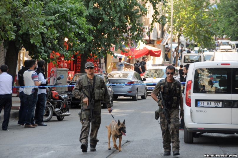 Turkish soldiers at the crime scene after attack to police officiers in Diyarbakır, Turkey.